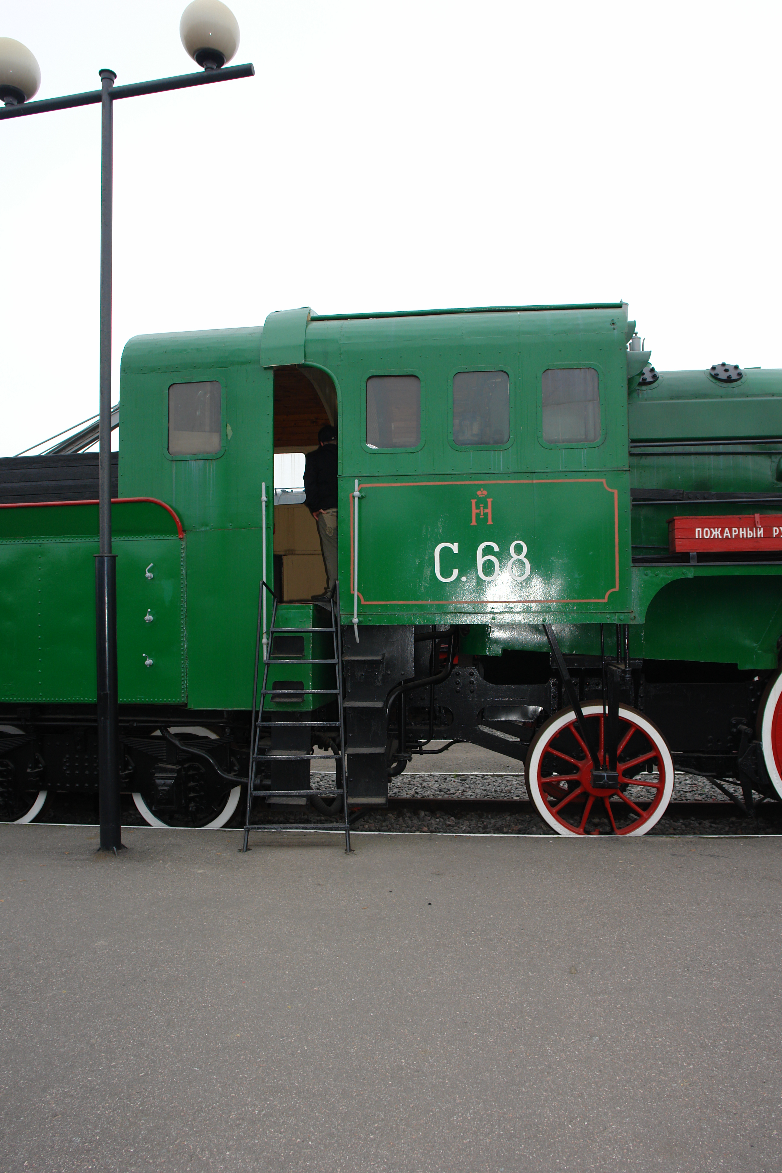 Passenger steam locomotive S.68 Weight in working order:excluding tender76t.including tender120t.Design speed115 kphMaximum power at wheel rim1300 hp The sole survivor of this class. Withdrawn by the MPS in 1960 and used as a stationary boiler at a Moscow factory which made concrete products. , An unprecedentedly complex restoration effort was undertaken at the October Railways Khovrino locomotive depot (Moscow) in 1982-3. ^ It was initially restored as S-245